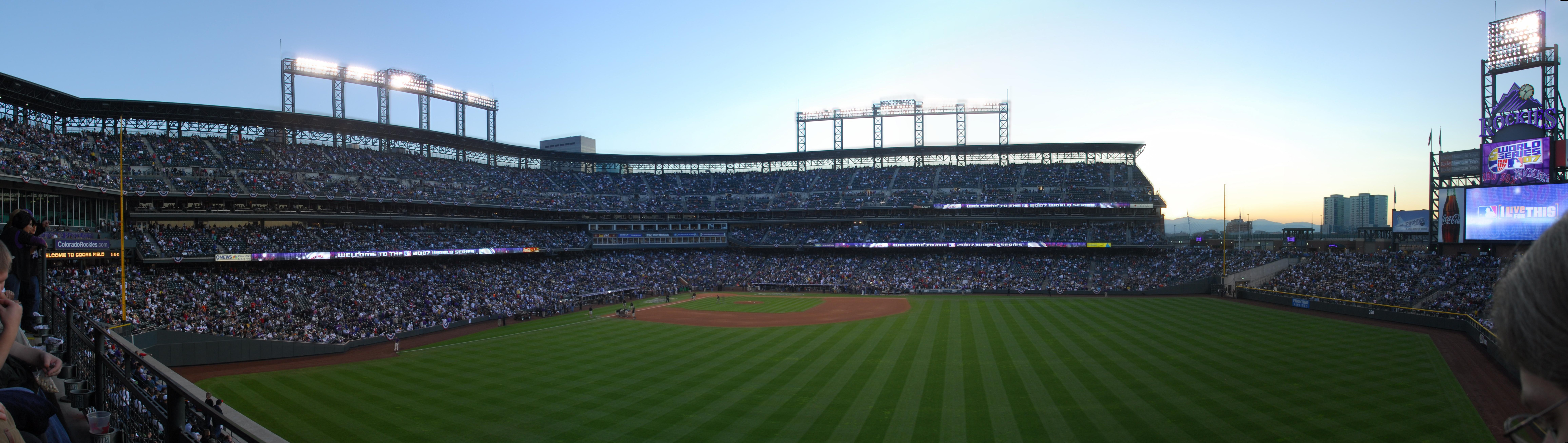 Panorama of Coors Field on the night of the 4th game of the 2007 World Series